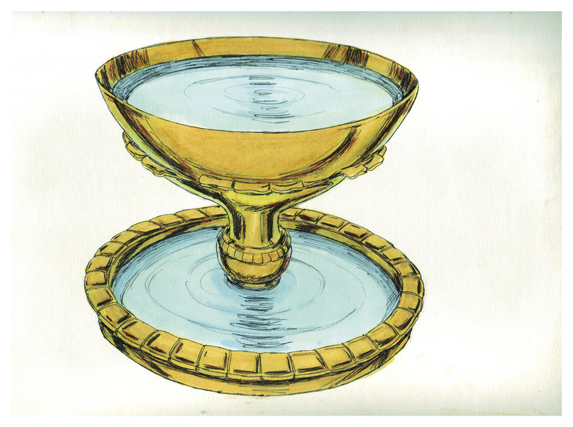 Biblical illustration of Book of Exodus Chapter 31